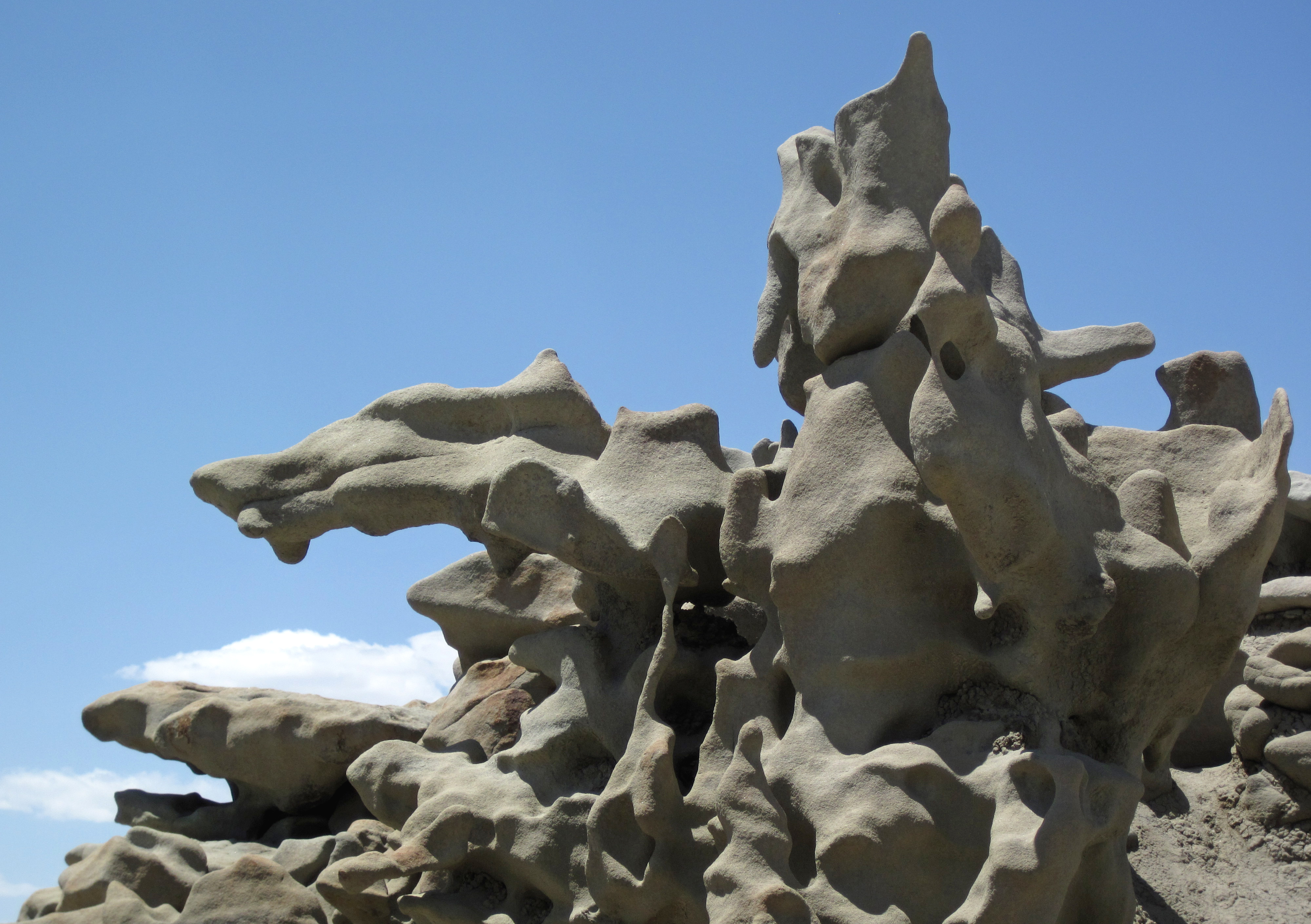 Differentially cemented & eroded sandstone in the Eocene of Fantasy Canyon, Utah, USA. Fantasy Canyon has the most spectacular examples of differential weathering and differential erosion I've ever seen. The rocks are quartzose sandstones that were deposited on the eastern shore of ancient Lake Uinta, which existed during the Eocene. Some wisps and ribbons of dark-colored, magnetite-rich sand are present in the sandstone. The variety of chaotic rockforms at Fantasy Canyon are quite diverse - these cannot be explained by ordinary weathering and erosion. Close examination shows that erosion has acted upon differentially cemented sandstone. The sandstone has not undergone complete lithification and diagenesis - groundwater lobes have preferentially cemented portions of the sandstone, especially immediately adjacent to joint planes. The poorly-cemented sandstone was easily eroded & the better-cemented sandstone remains. Stratigraphy: member C, Uinta Formation, Eocene Locality: Fantasy Canyon, between Red Wash & Coyote Wash, Chapita Wells Gas Field, west-northwest of the town of Bonanza & south-southeast of the town of Vernal & east of the town of Ouray, northeastern Utah, USA